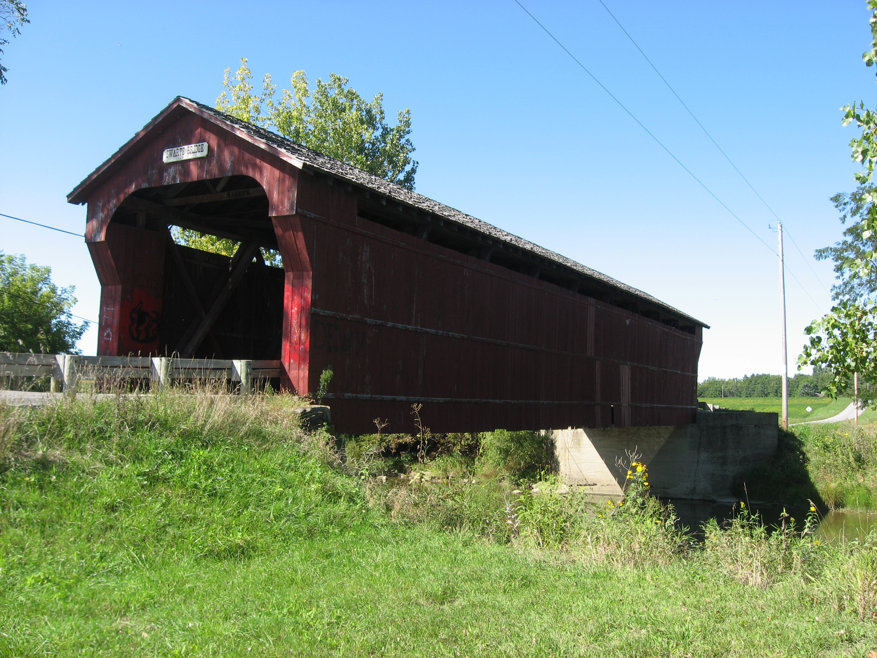 Southern portal and eastern side of the Swartz Covered Bridge, which carries County Road 130 over Broken Sword Creek southeast of the city of Upper Sandusky in Antrim Township, Wyandot County, Ohio, United States. Built in 1880, it is listed on the National Register of Historic Places.